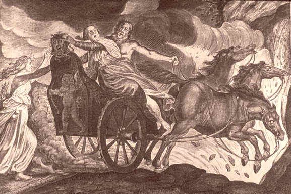 Pluto and Proserpina. Amsterdam 1703.